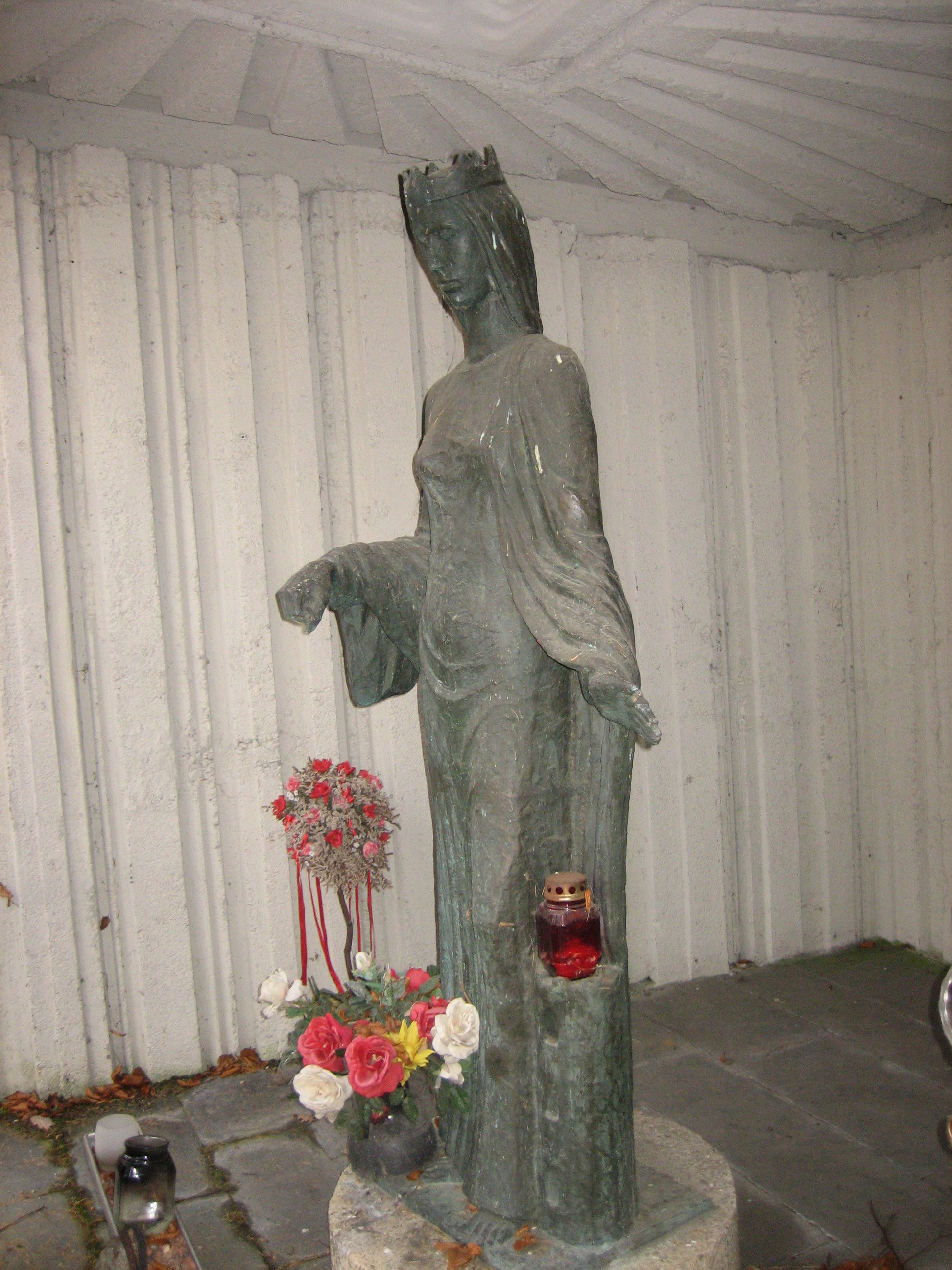 This is a photograph of an architectural monument.